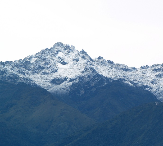 Bolívar Peak, Venezuela.